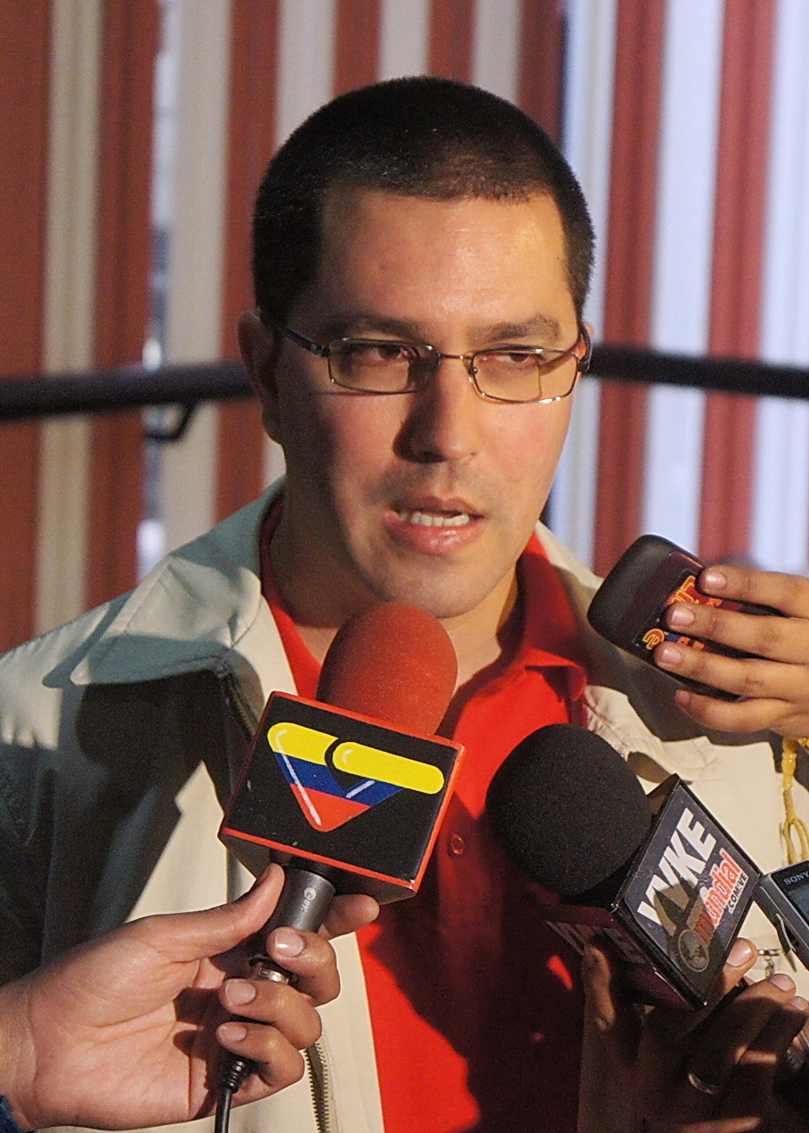 Jorge Alberto Arreaza, Vice President of Venezuela from 8 march 2013, after the ascent of Nicolás Maduro as Interim President